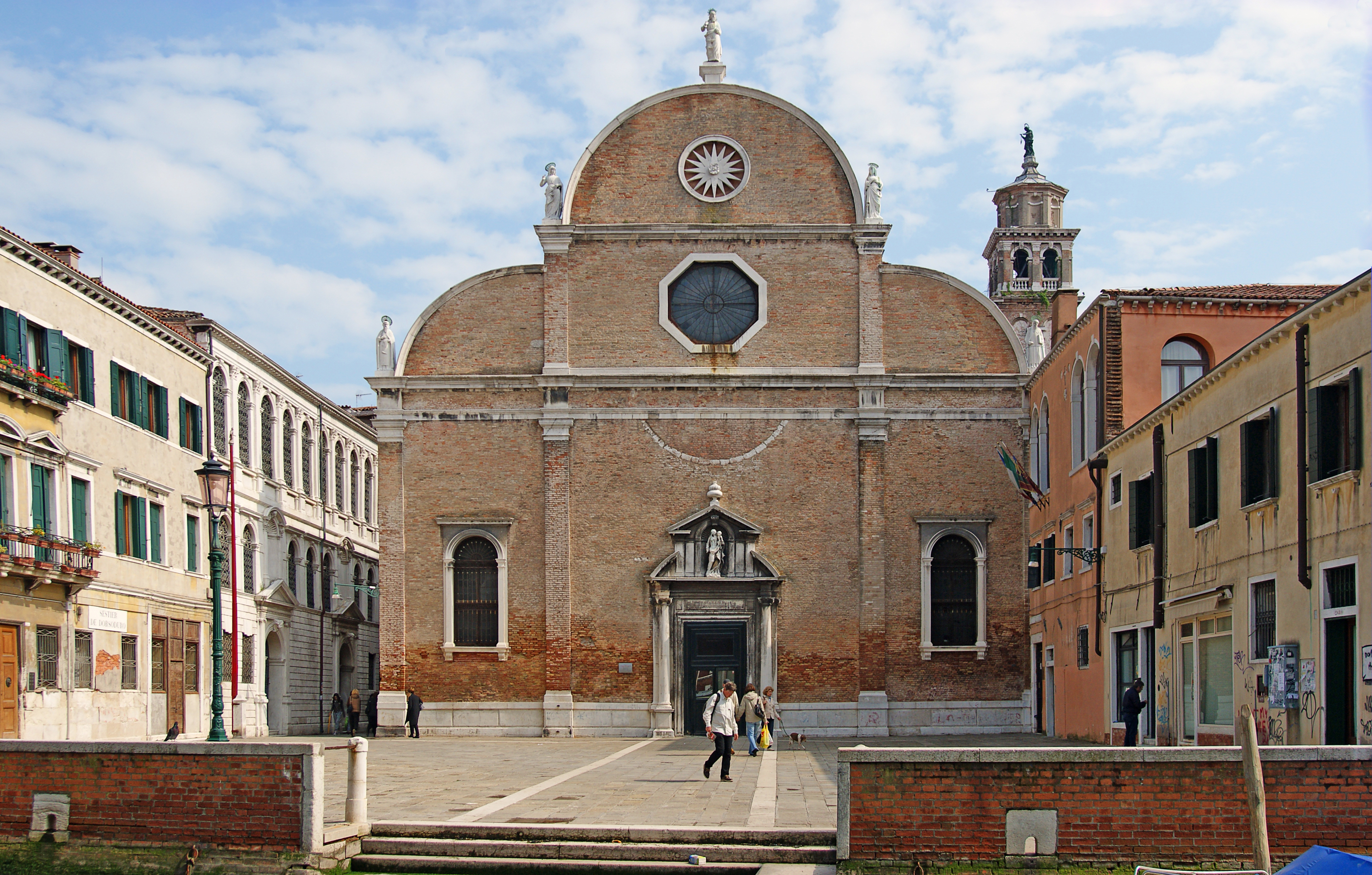 Baroque facade of Santa Maria dei Carmini (Venice) by Giovanni Gloria